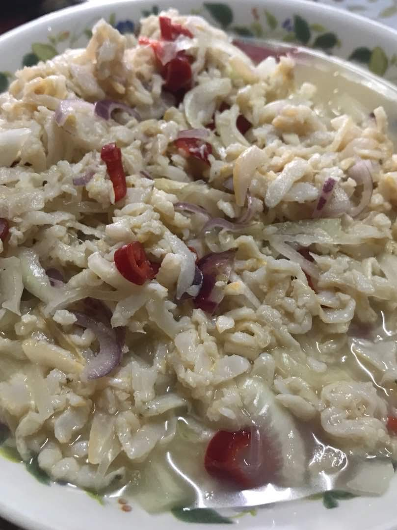 A bowl of "Umai", a Melanau traditional dish made from sliced fish.